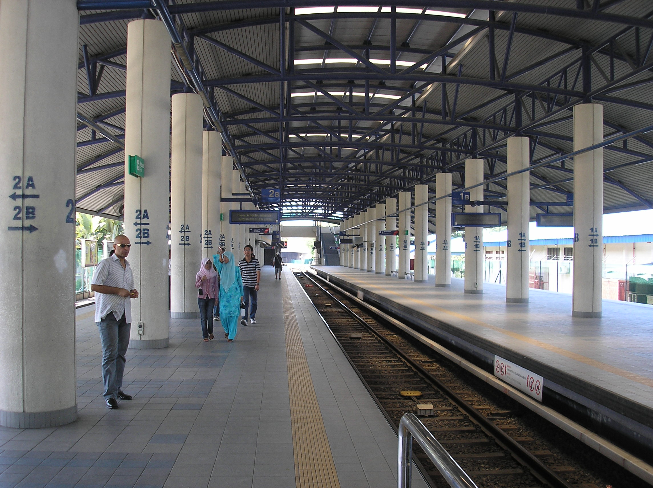 The Chan Sow Lin LRT station (Sri Petaling Line/Ampang Line), Kuala Lumpur, Malaysia.